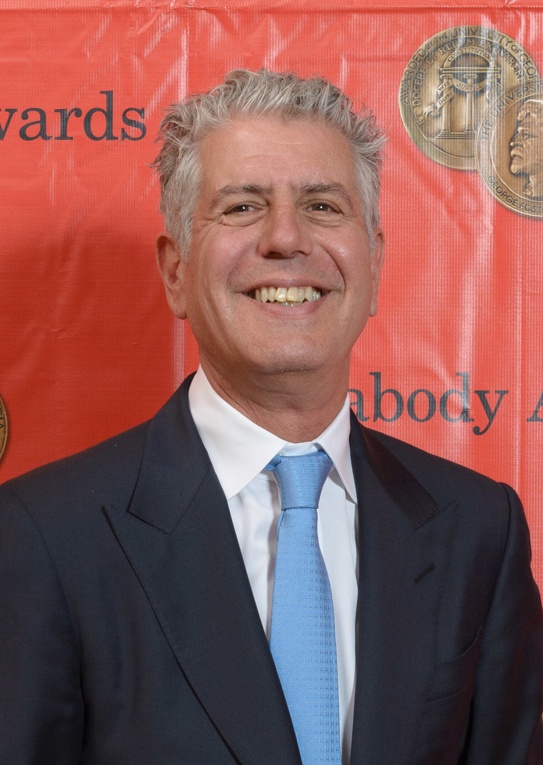 Anthony Bourdain at the 73rd Annual Peabody Awards for "Parts Unknown"